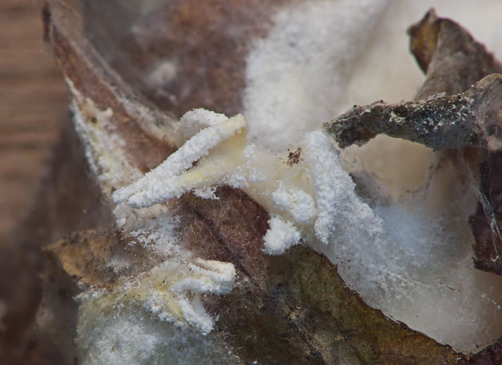 Paecilomyces farinosus on pupa of Yponomeuta cagnagella